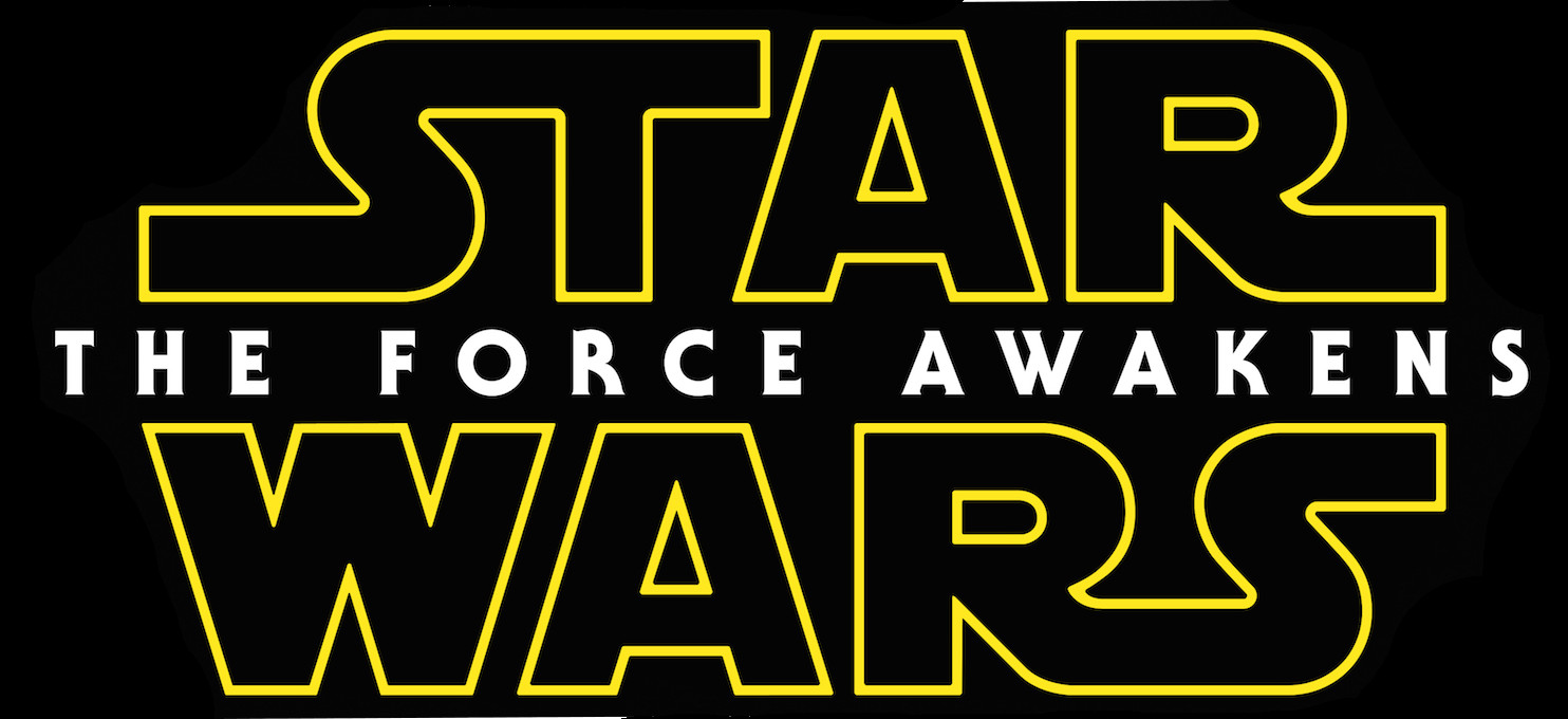 Opening logo to the Star Wars Episode VII